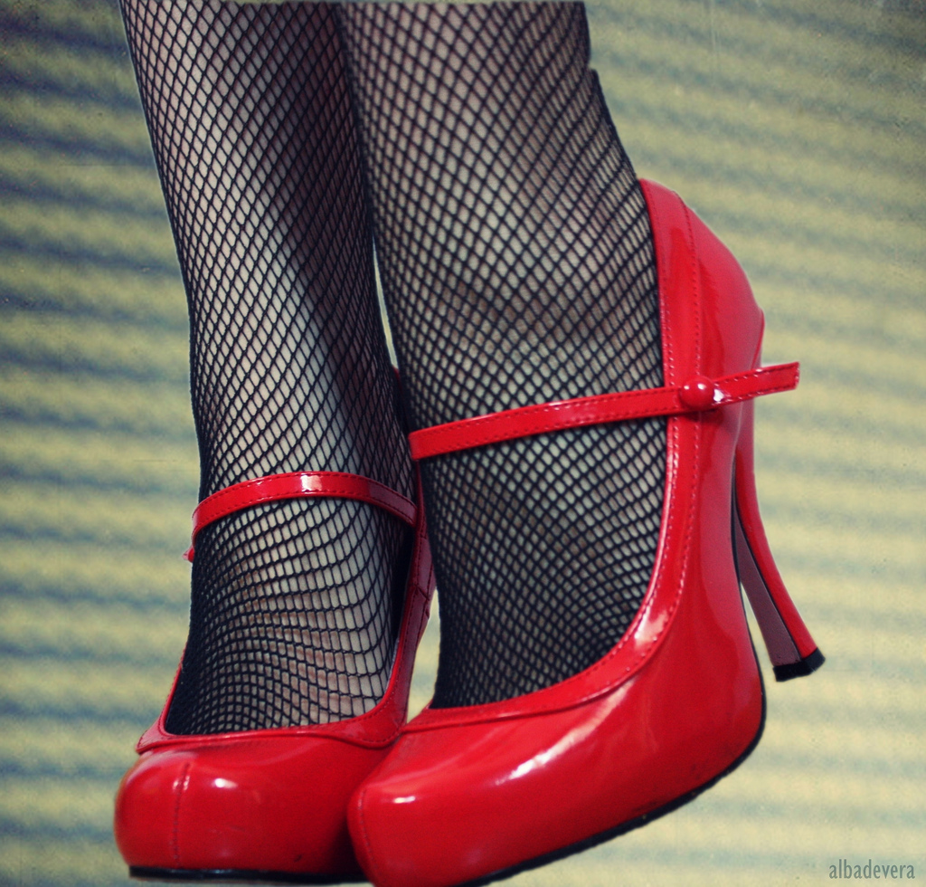 Red shoes, from Elda, Spain.